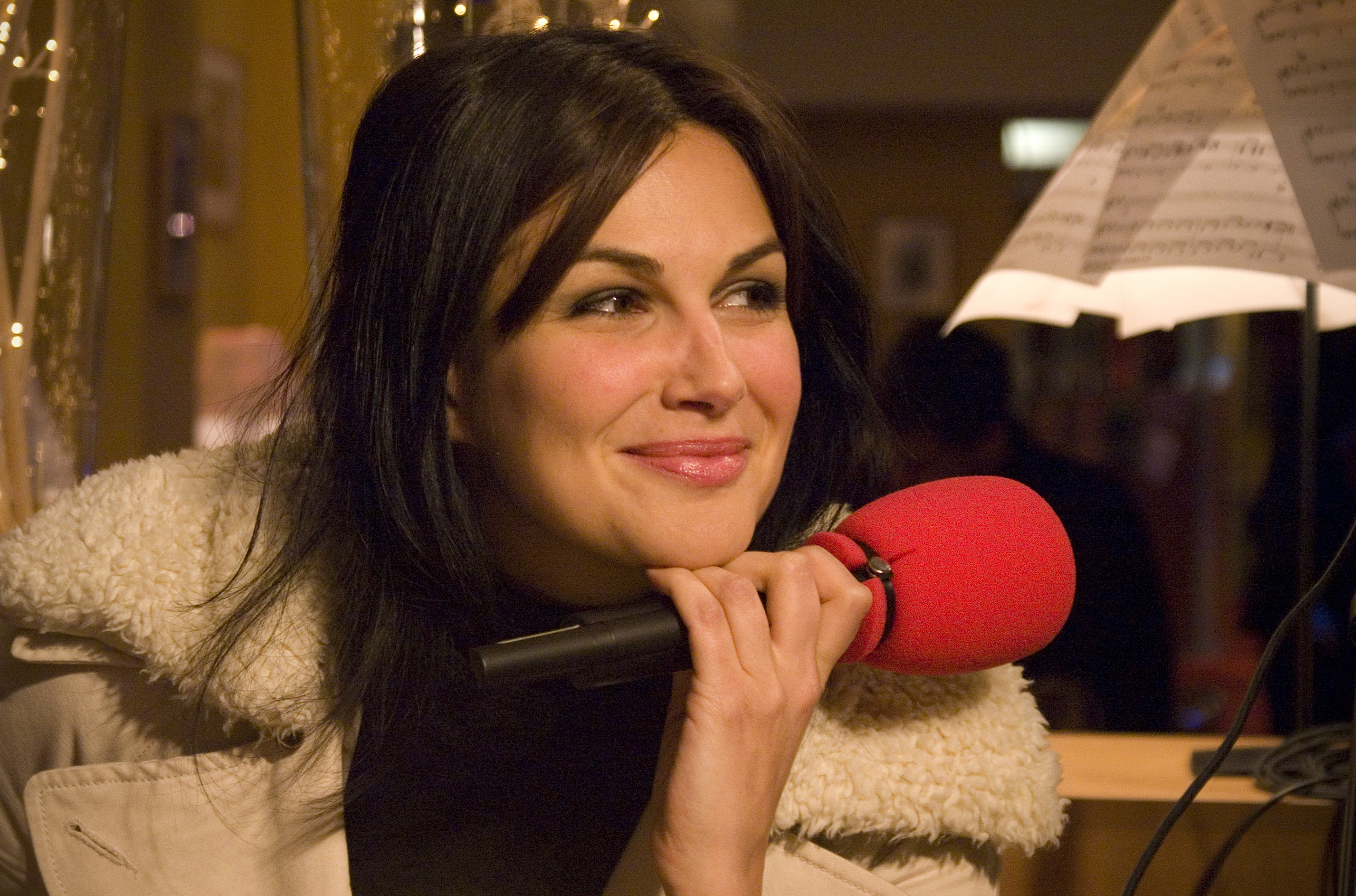 Helena Noguerra at the France Bleu Auxerre radio station during the eighth music and cinema festival of Auxerre (France).